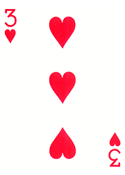 A Playing card: trey of hearts , from poker deck, in small png format.